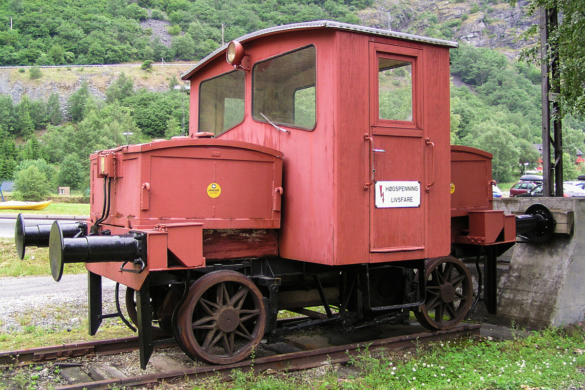 NSB Ska 207.3 in Flåm in 2005.